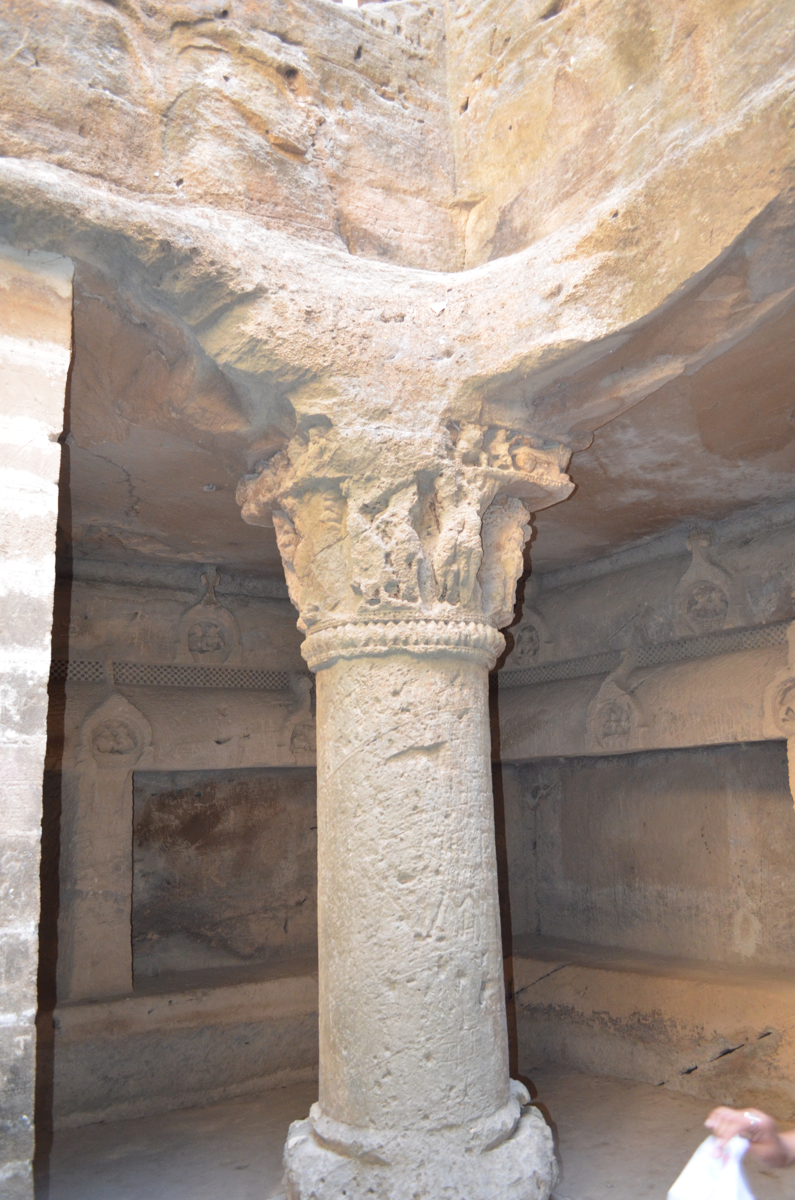 existing interior column of the Buddhist cave at junagarh